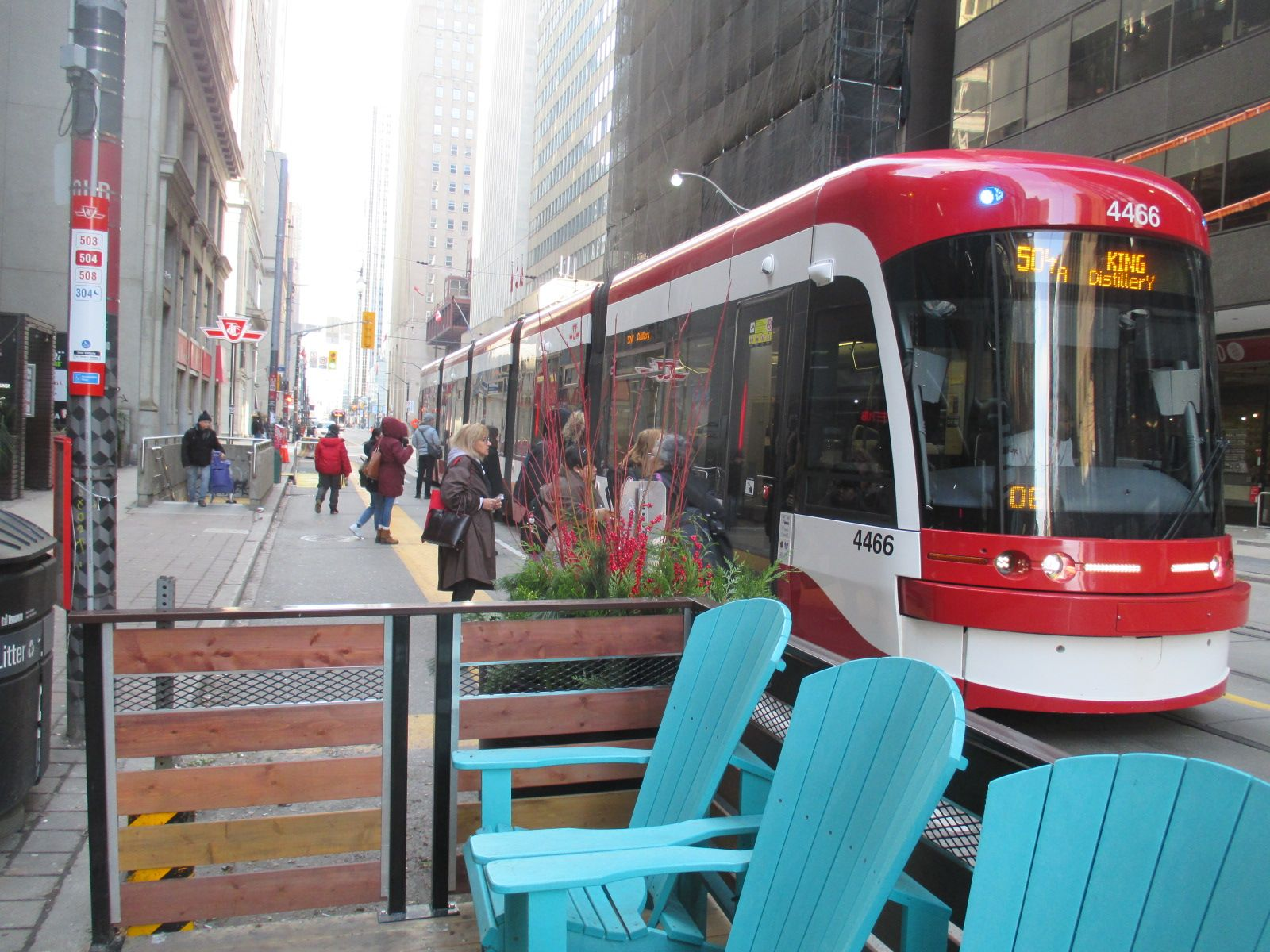 Flexity Outlook streetcar 4466 is running eastbound at Yonge Street. An entrance to King subway station is the staircase at rear left of photo. The streetcar is using the King Street Transit Priority Corridor.